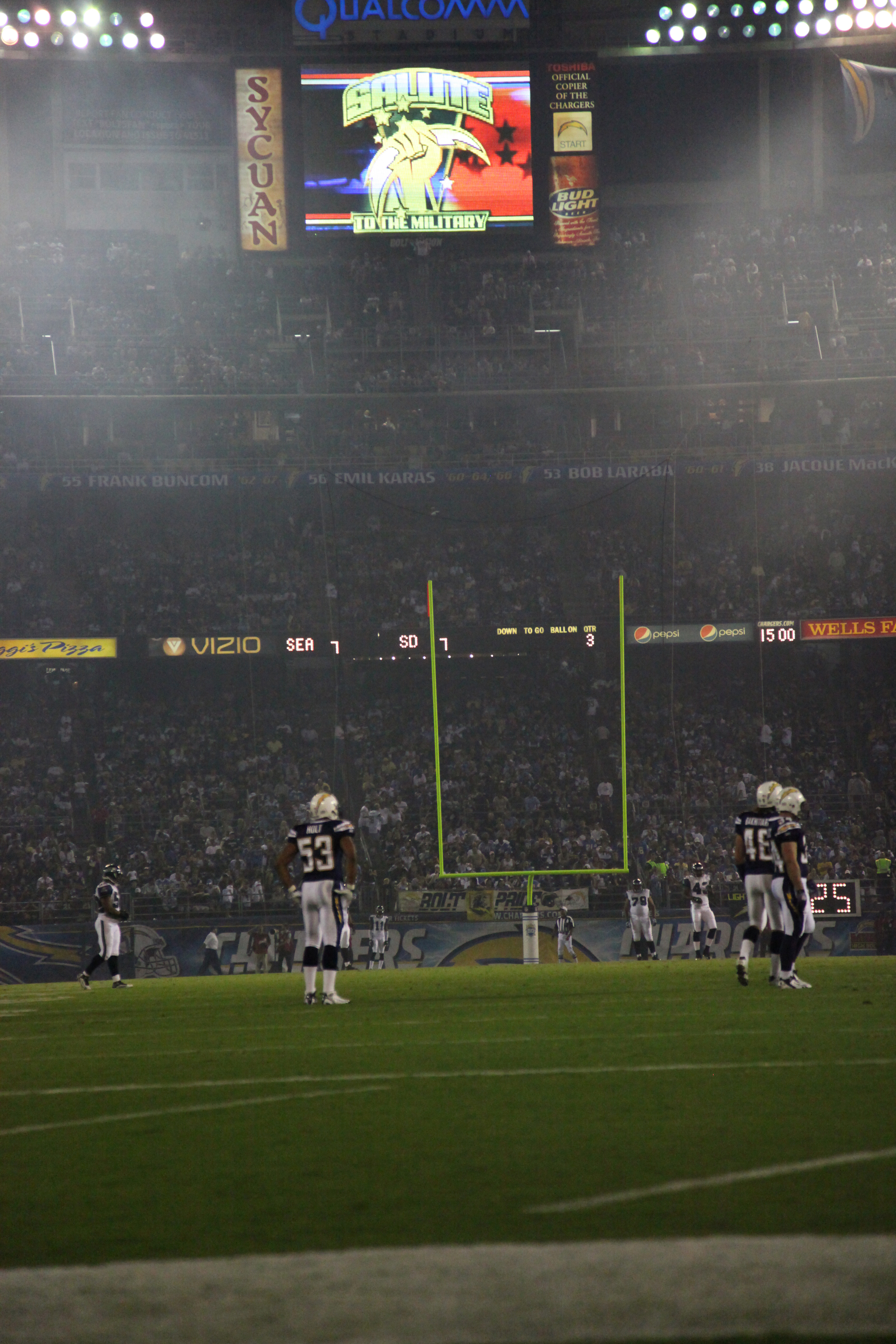 The San Diego Chargers take the field after the half-time show at the military appreciation game Aug. 15, at the Qualcomm Stadium. The Chargers were defeated by the Seattle Seahawks 20-14.